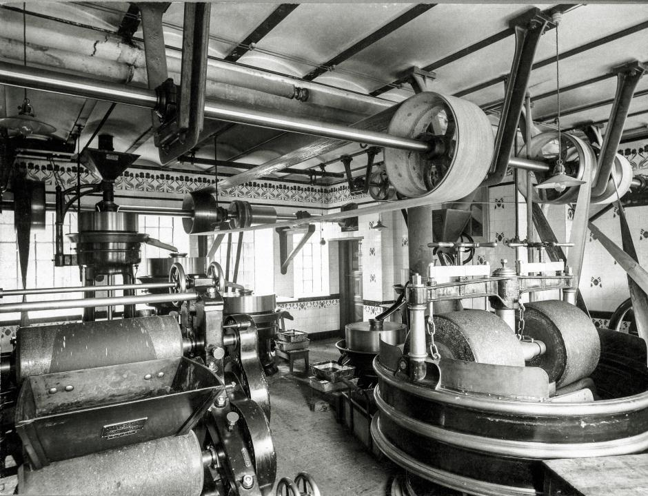 From Chr. F. Kehlet's chokolate factory in Copenhagen, Denmark